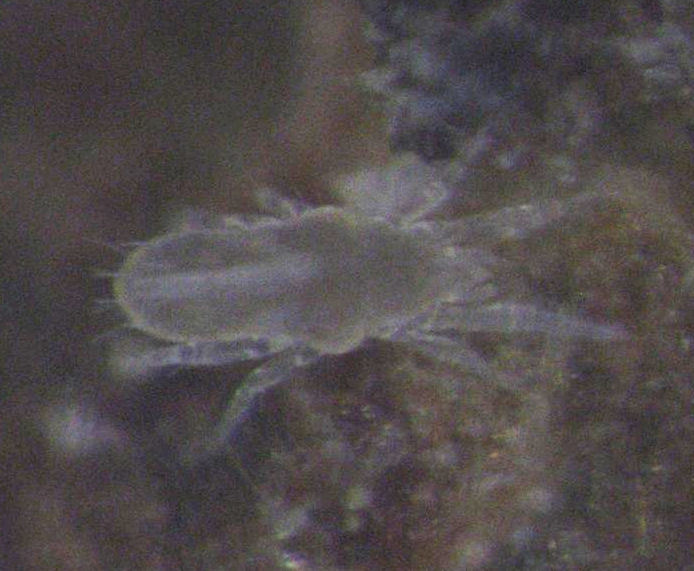 A live mite of the family Rhagidiidae